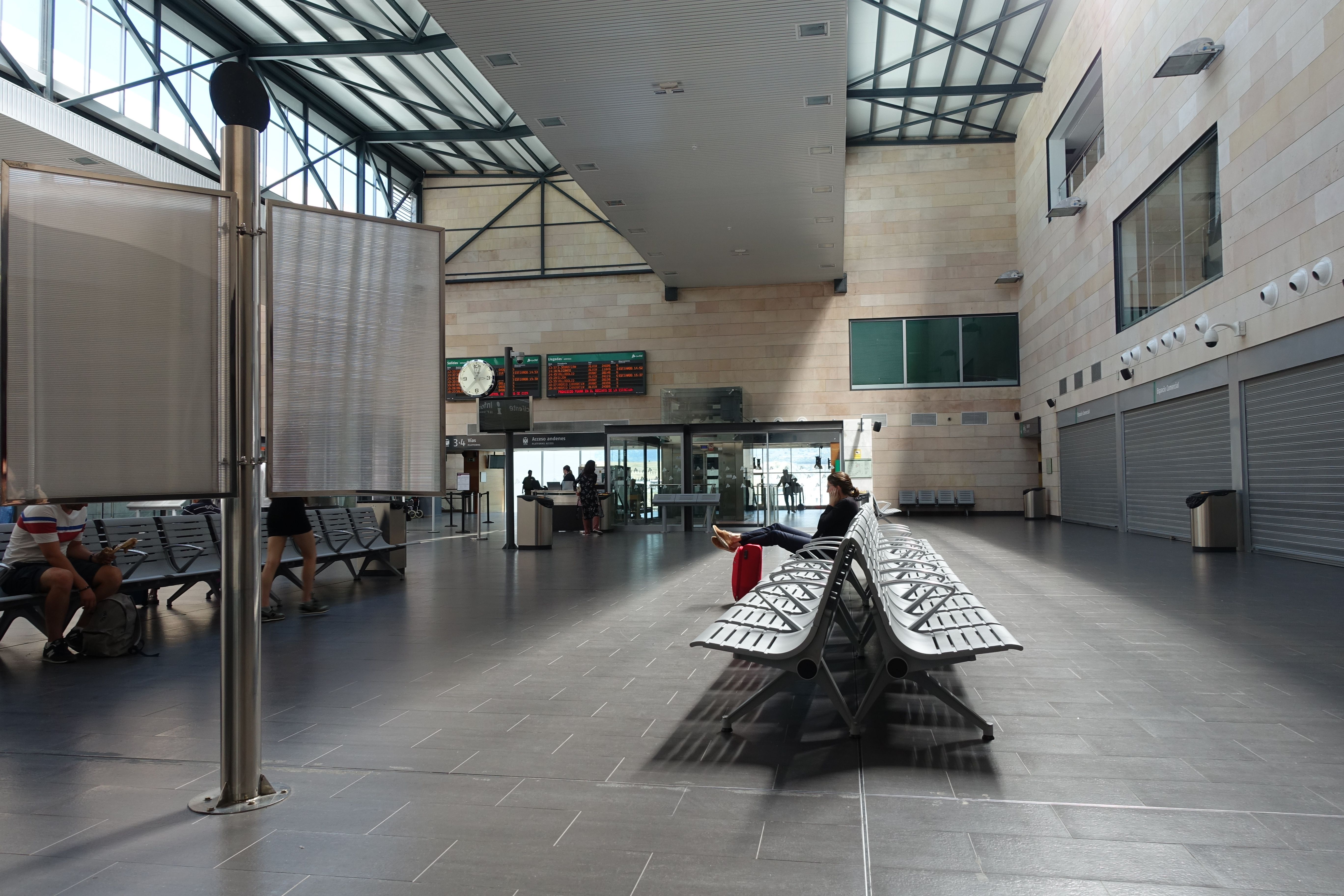 Waiting hall of Segovia-Guiomar railway station with info panel and security terminal in the background